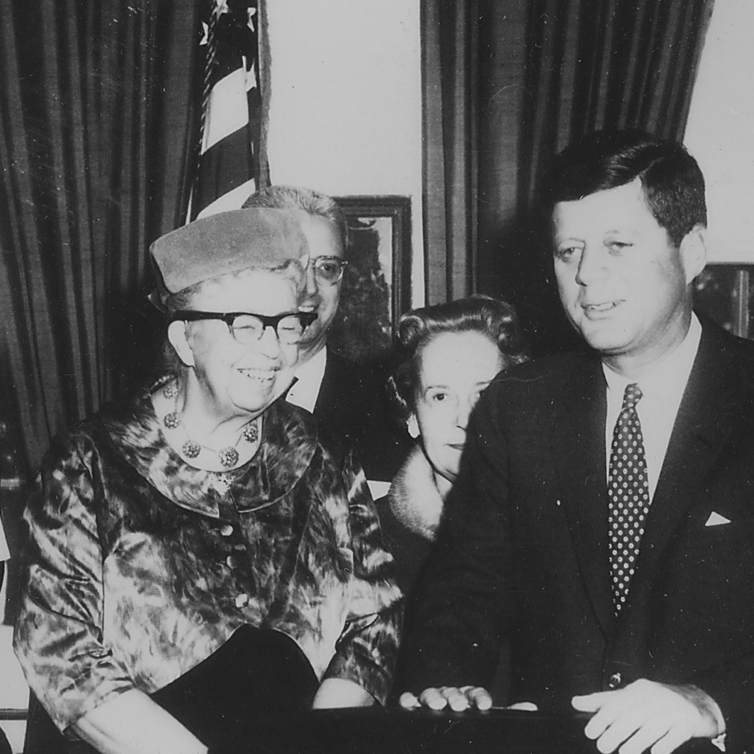 Cropped version of File:Eleanor Roosevelt and John F. Kennedy (President's Commission on the Status of Women) - NARA - 195581.tif showing Eleanor Roosevelt and President John F. Kennedy